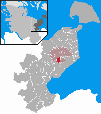 This map shows the area of the Gemeinde (municipality) Beschendorf in the Kreis (district) Ostholstein, Schleswig-Holstein, Germany.